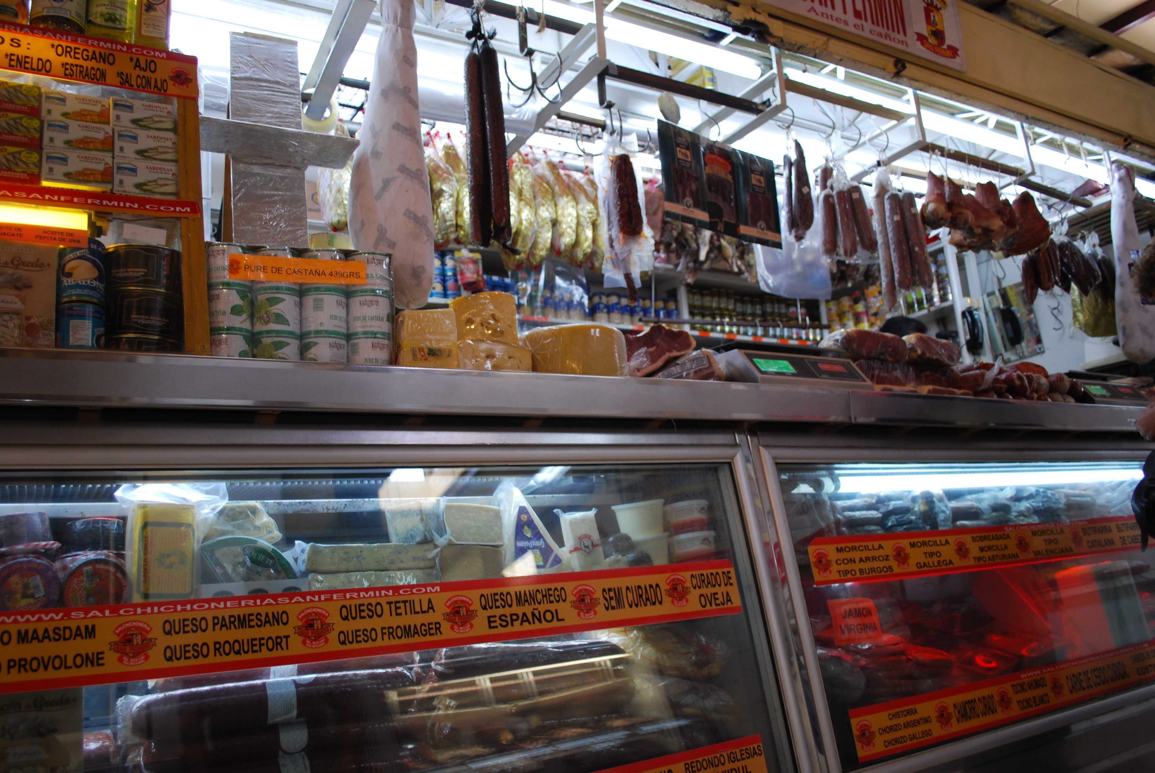 Delicounter at the San Juan Market in Mexico City